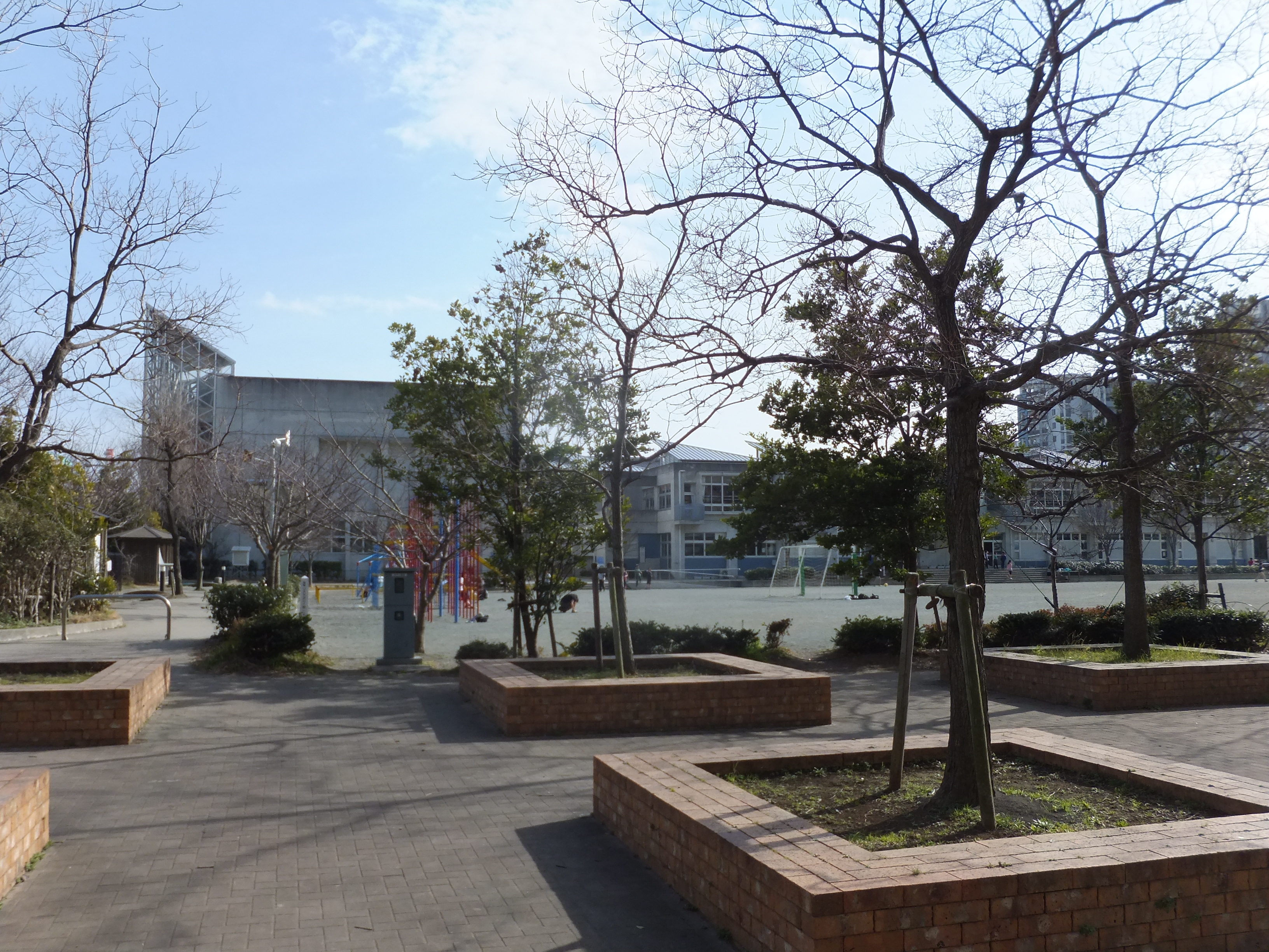 Chiba Municipal Kaihin-Utase Elementary School in Mihama Ward, Chiba